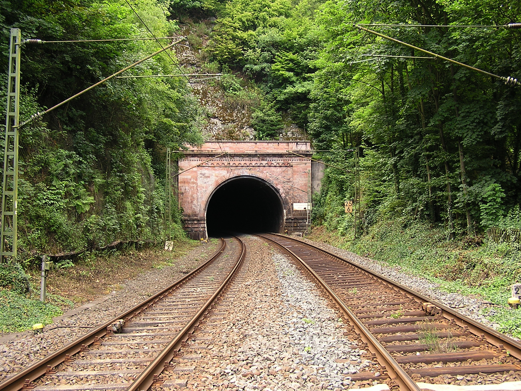 Southern entrance of the Eppstein tunnel at the Main-Lahn Railway before its closing 2013